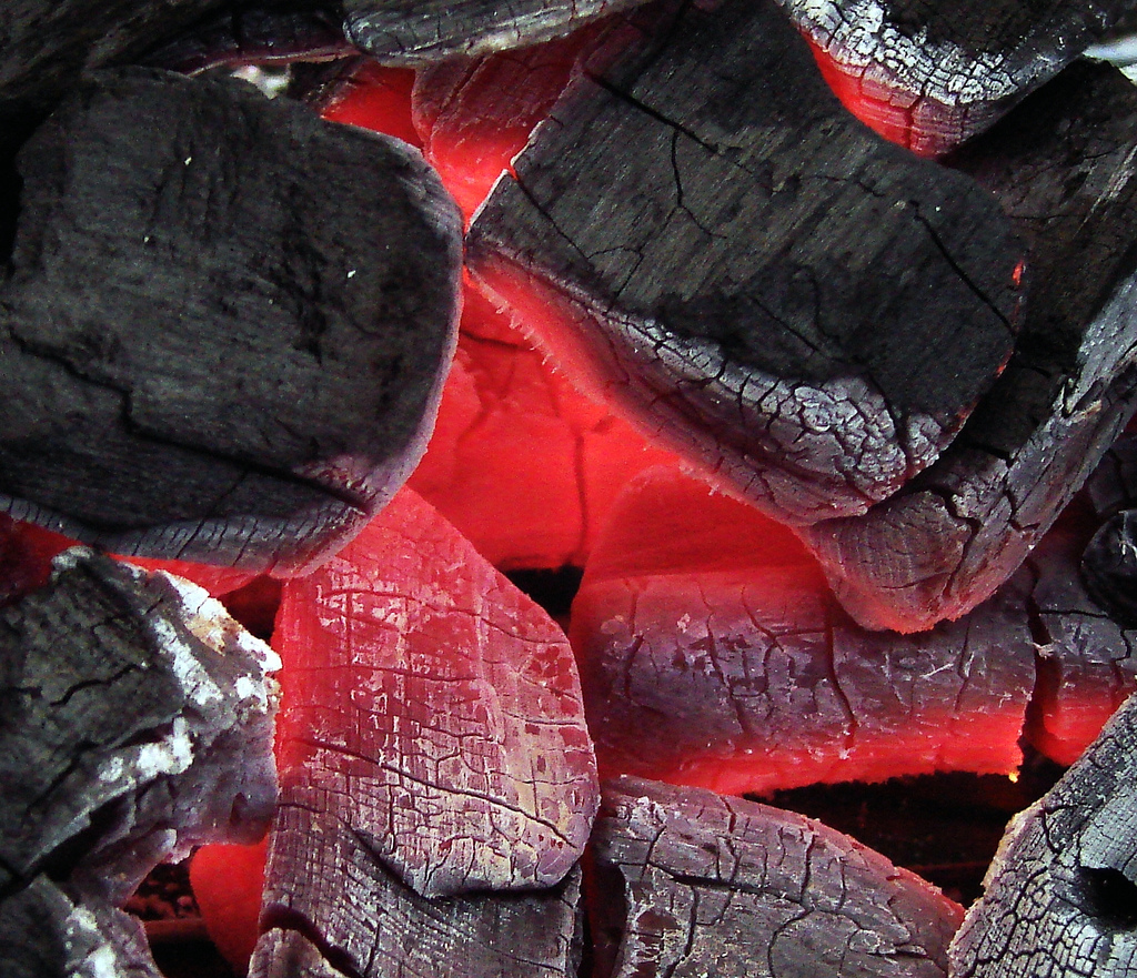 heart of fire